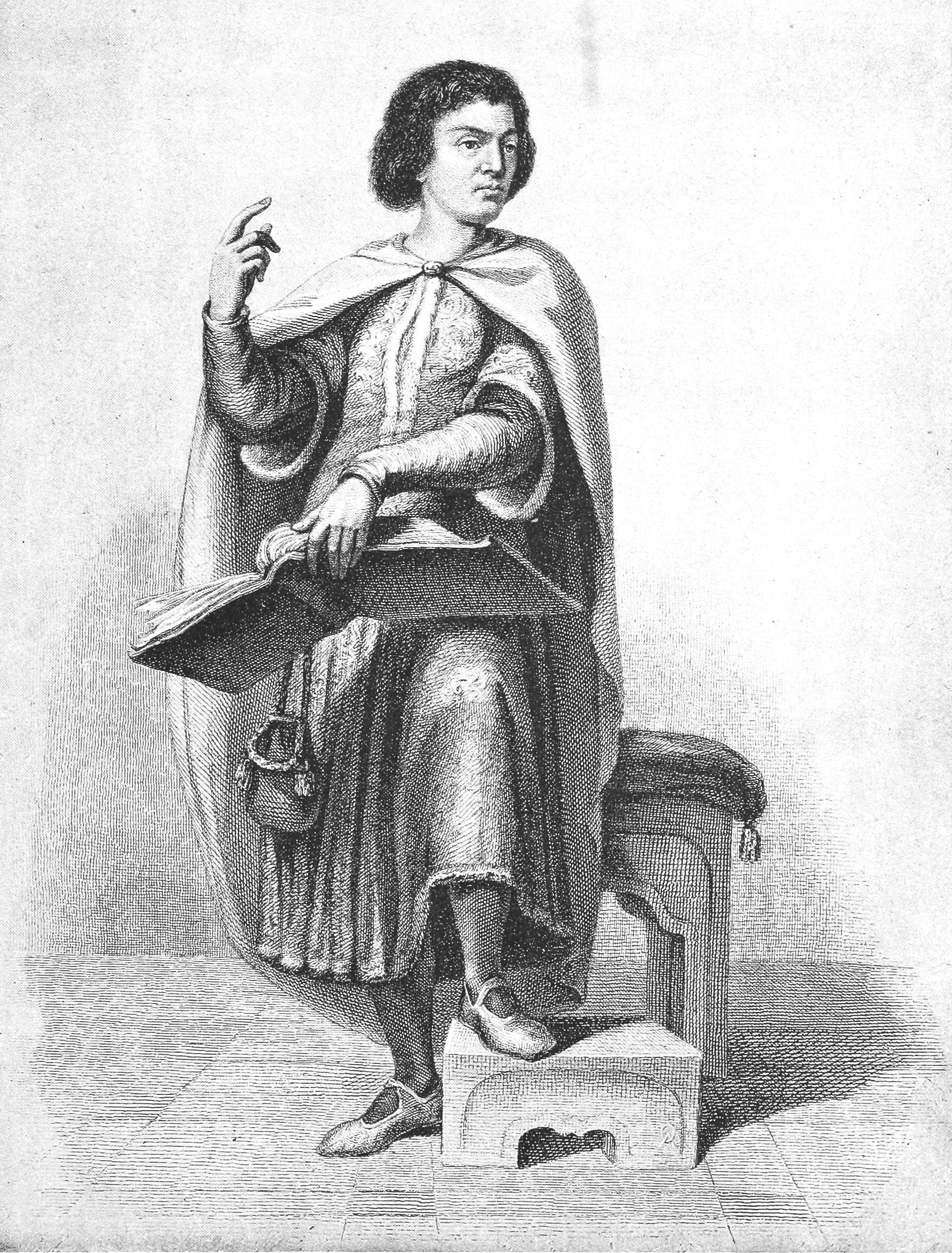 From an old edition of a collection of Abelard's works